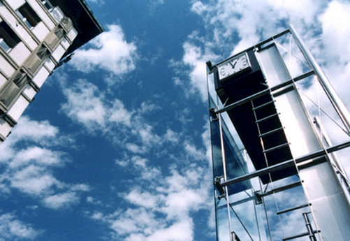 My project